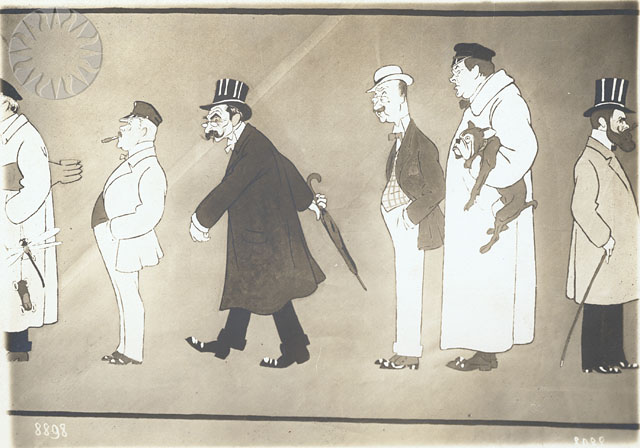 SI Neg. 2001-11554. Date: na. One portion of a series of caricatures of aviation and automobile personalities by artist "Mich" (Michel Liebaux) executed on a roll of Toile Continental fabric to decorate the Societé Continental stand at the Salon de l'Automobile, Paris, France, circa 1911-1913. Depicted in this section are, left to right: Brasier, Darracq, Jellineck [sp?], Burton, unknown. Credit: Meurisse (Smithsonian Institution)